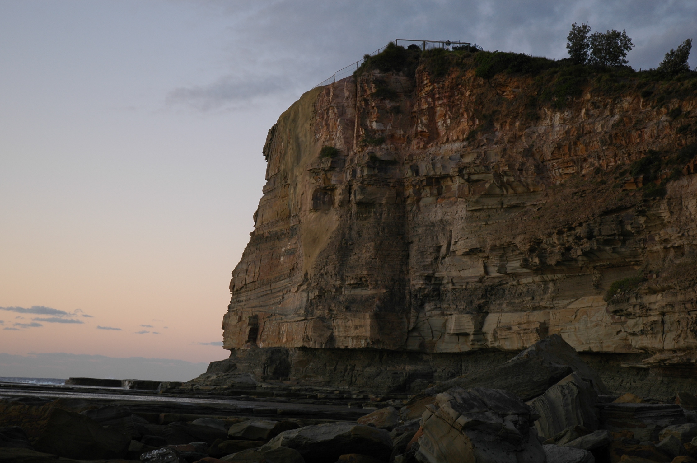 The Skillion at sunrise